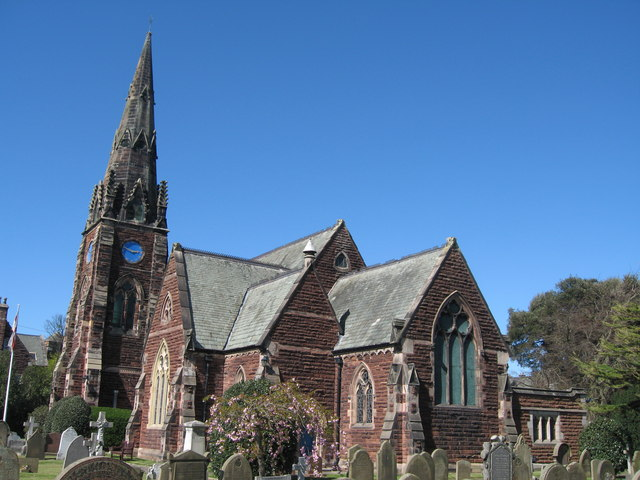 All Saints Church, Thornton Hough